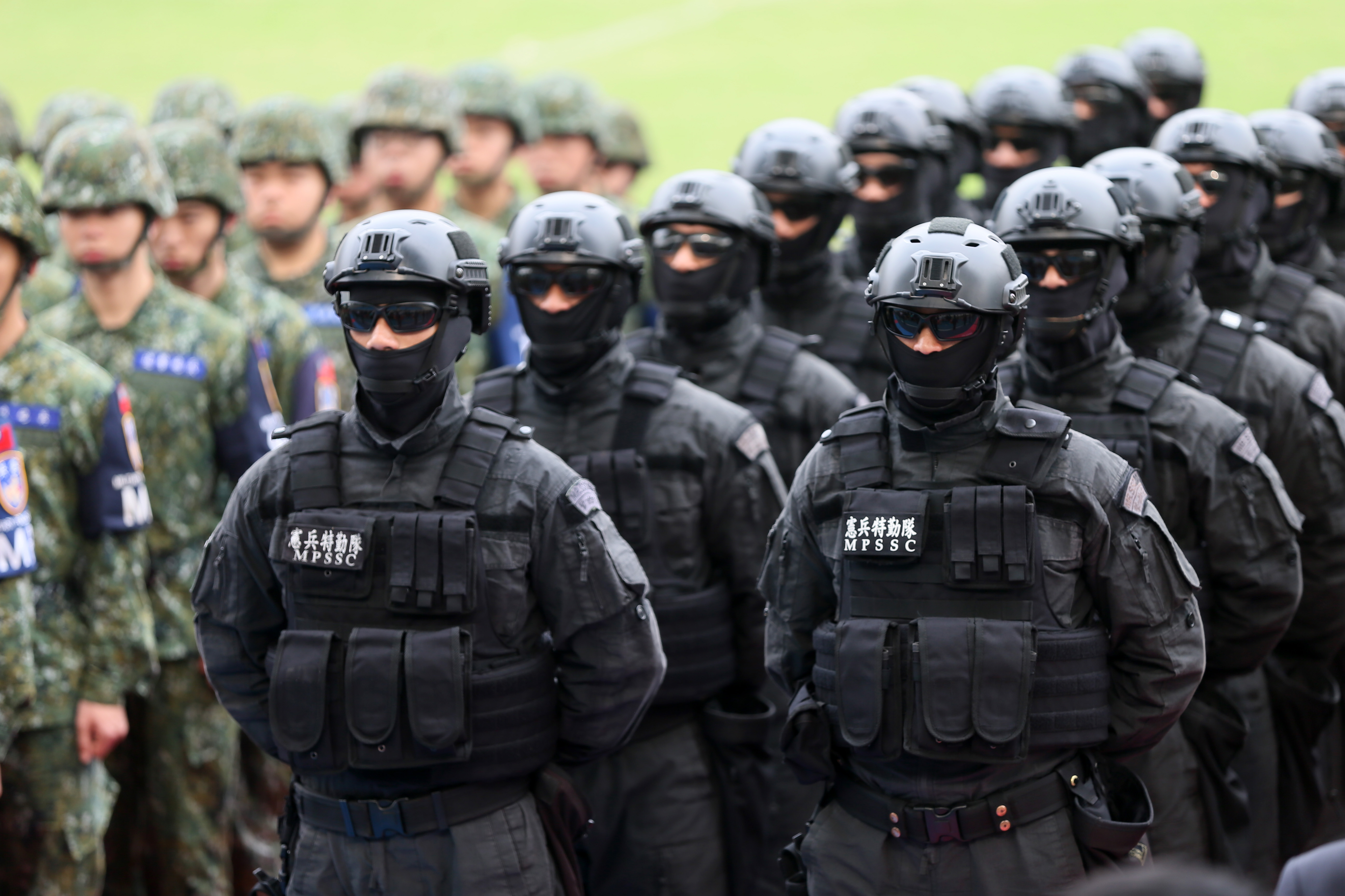 授權方式及範圍：中華民國總統府│政府網站資料開放宣告 Authorization Method & Scope: Office of the President, Republic of China (Taiwan) | Government Website Open Information Announcement